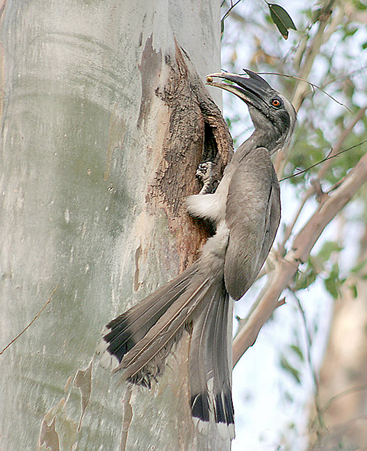 Indian Grey Hornbill Ocyceros birostris at Wagah Border in Amritsar District of Punjab, India.